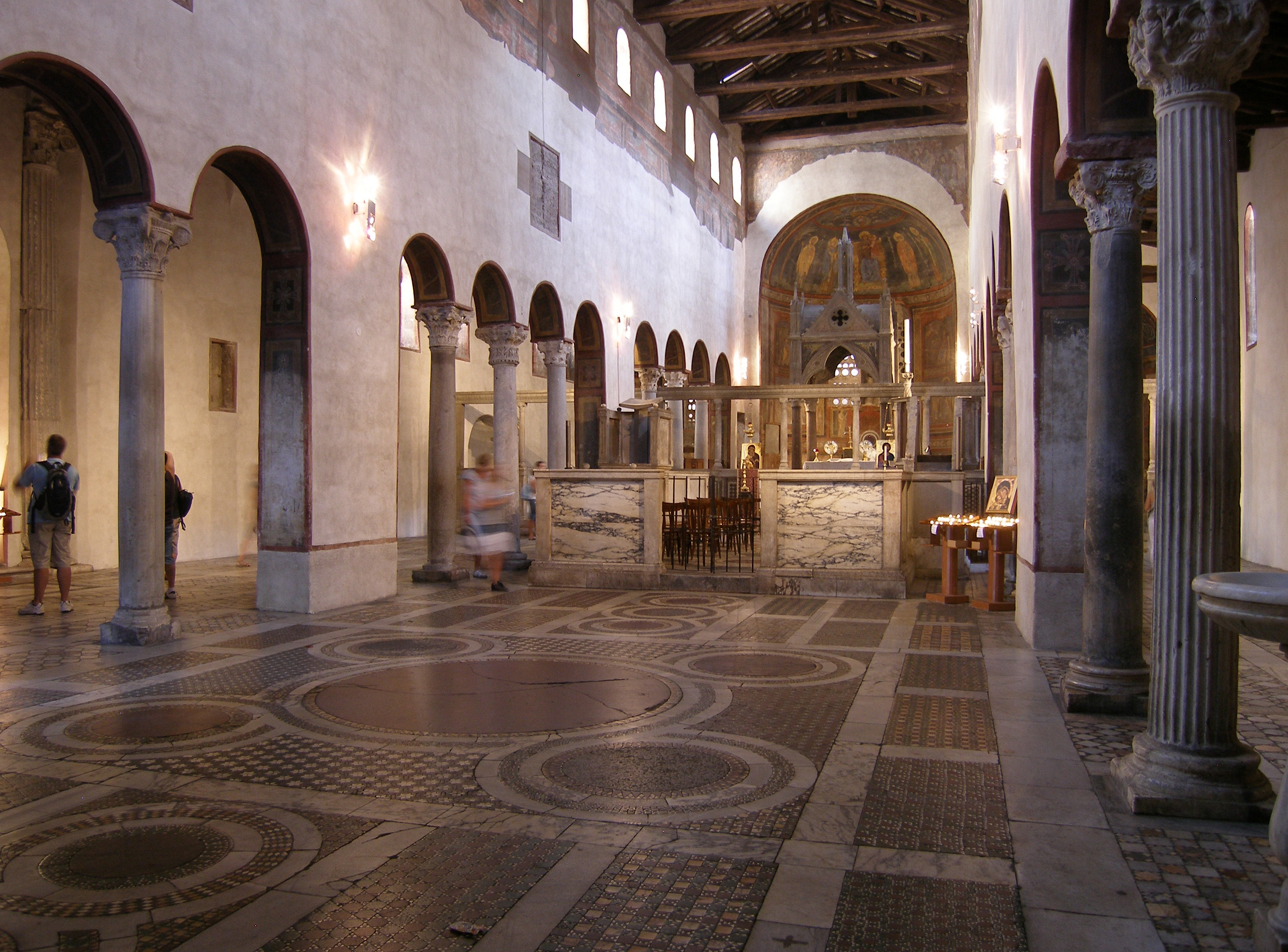 Interior of Santa Maria in Cosmedin, Rome, Italy